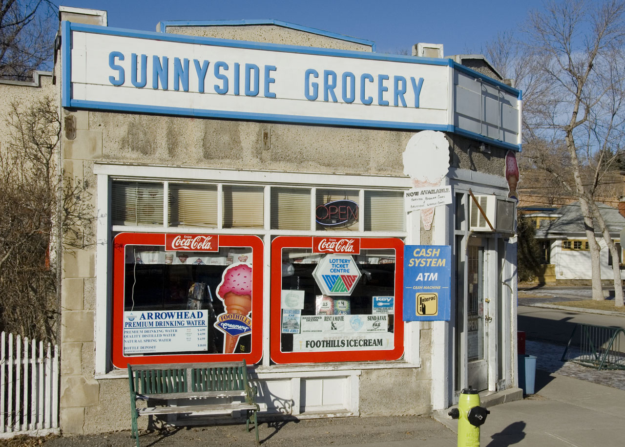 Now Closed This picture was taken by Mark Bennett.